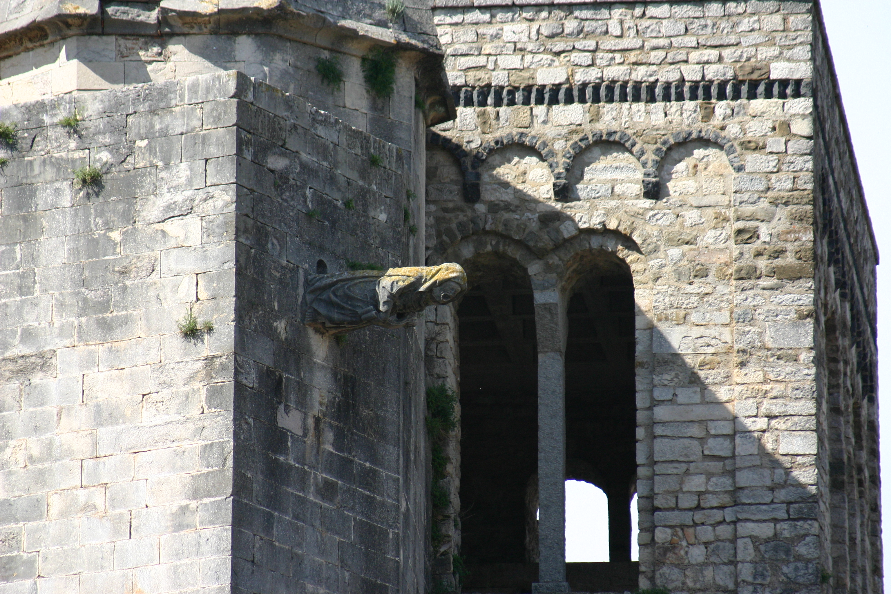 Detail from Girona's Cathedral. Girona, Catalonia (Spain)